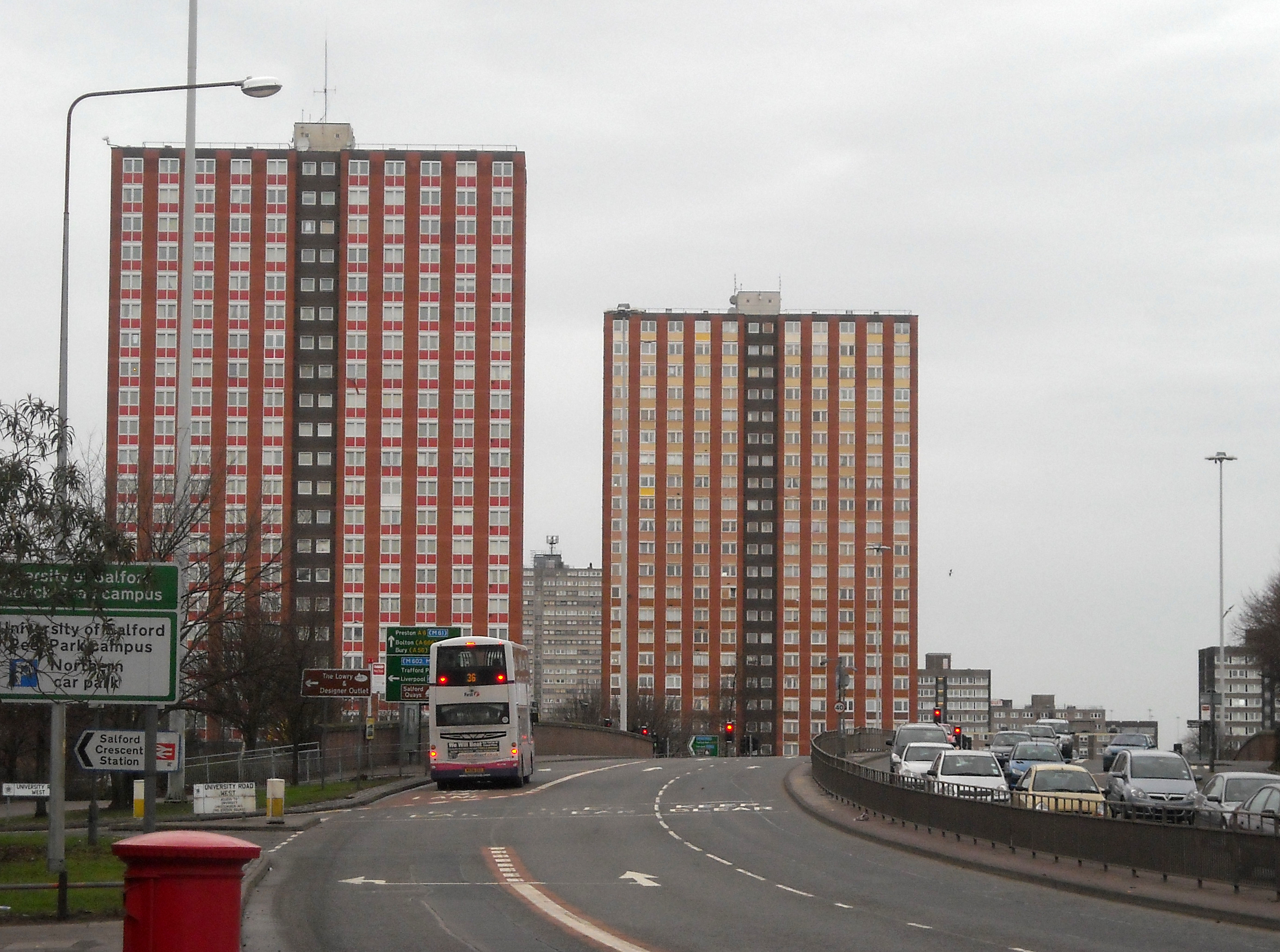 The Crescent at Pendleton, Salford, Greater Manchester, England including Thorn Court and Spruce Court housing tower blocks.